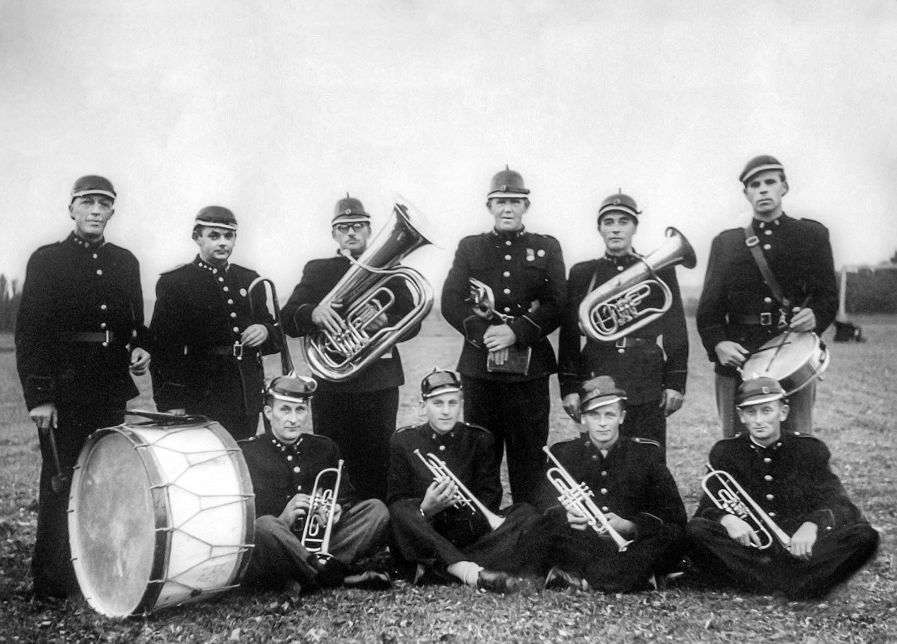 Band of the volunteer Fire Brigade Sonderborg, Denmark. 1950.